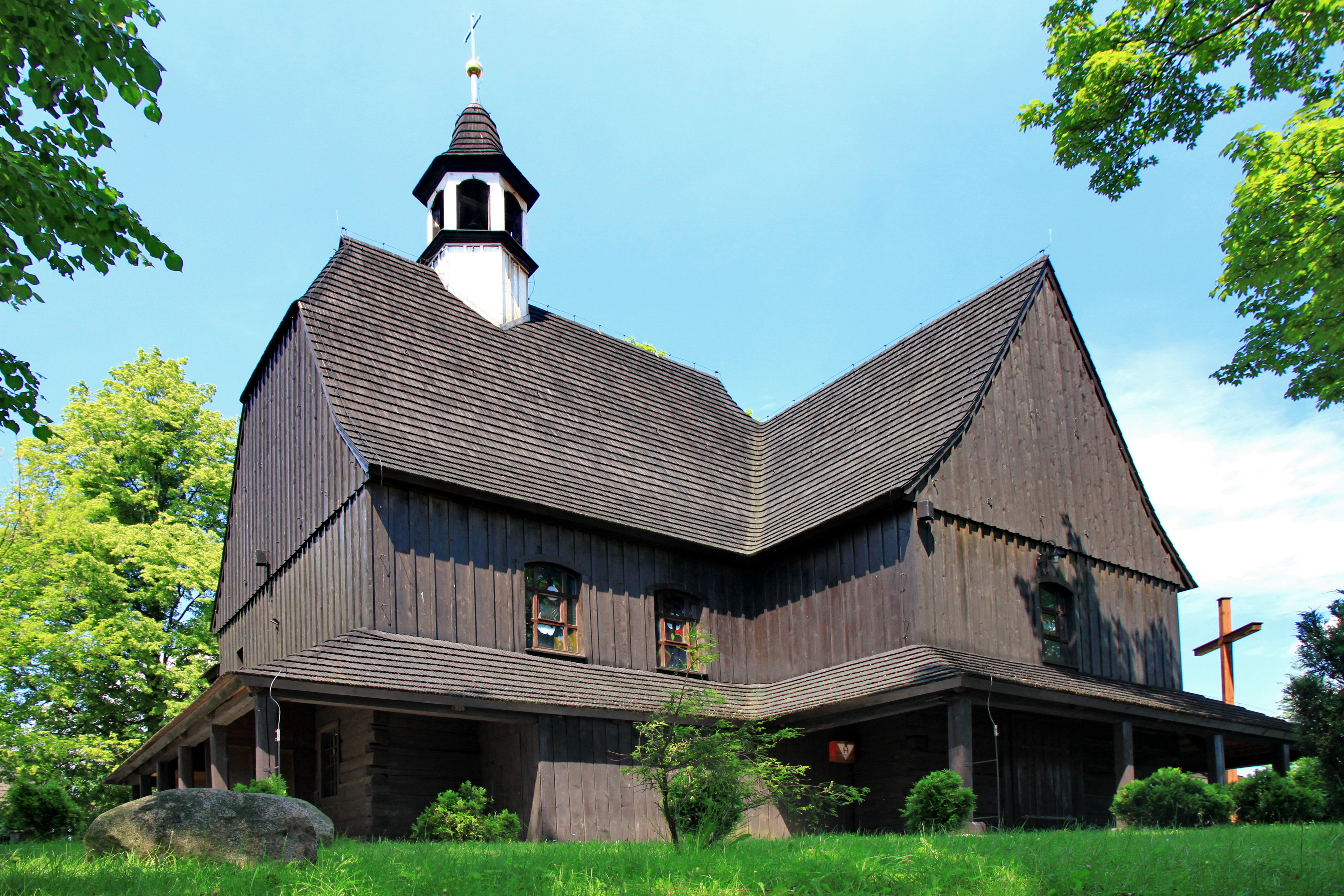 Jankowice Rybnickie, Corpus Christi parish church, build in 1675